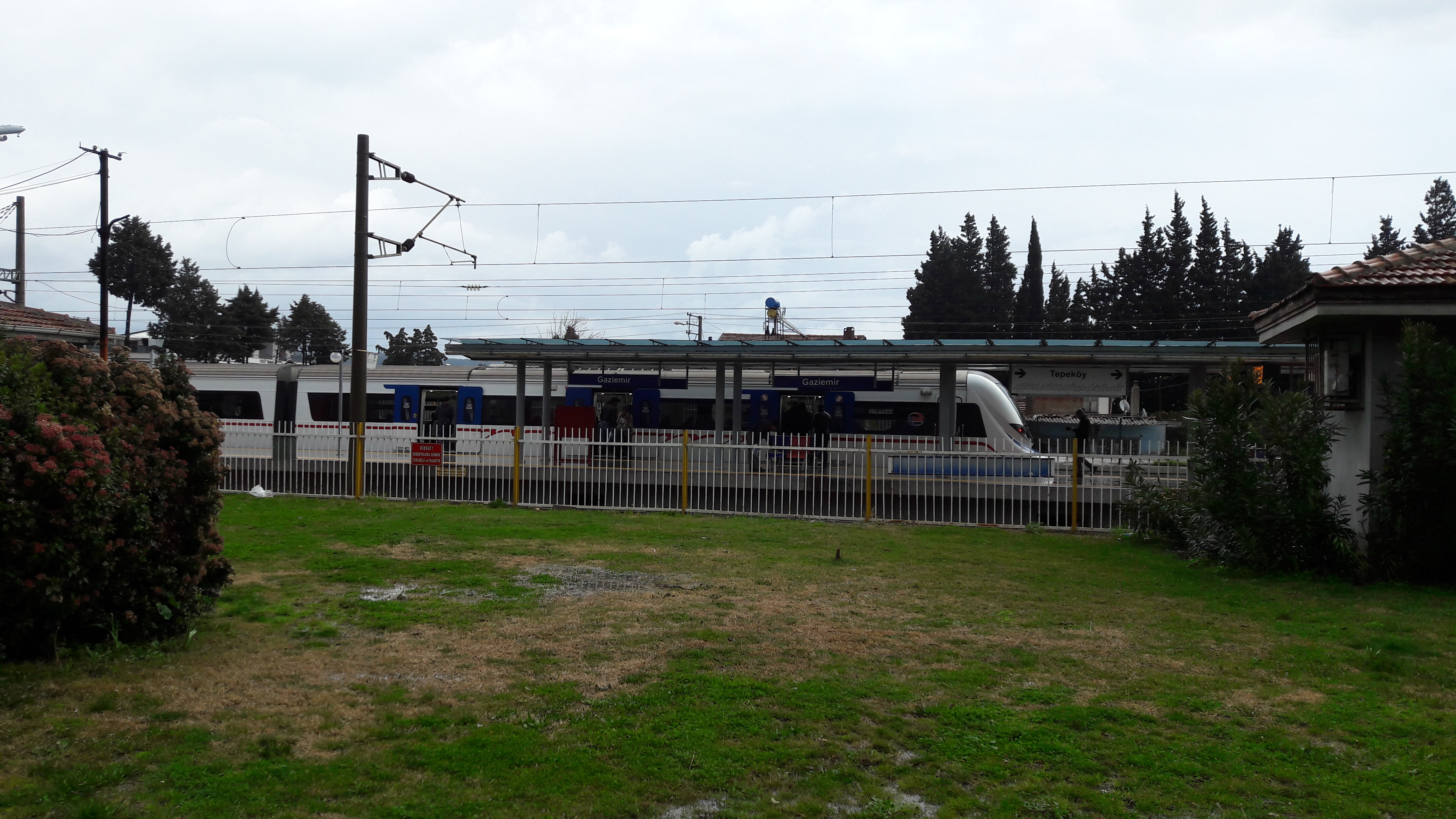 An IZBAN train at Gaziemir.